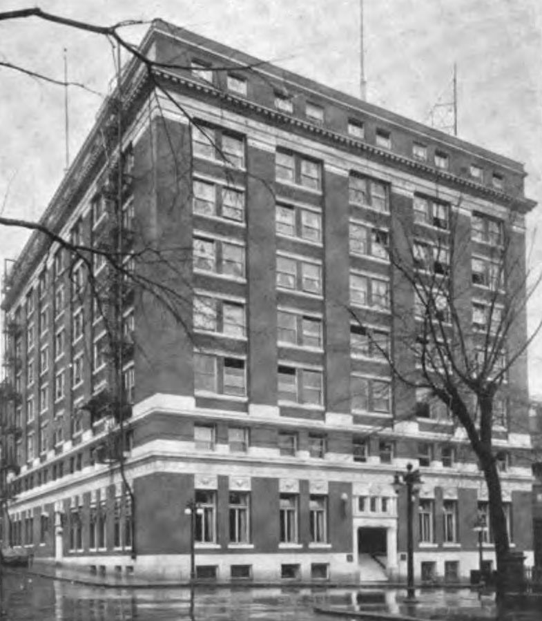 Former Young Men's Christian Association (YMCA) building in Downtown Portland, Oregon. Razed in 1977. Was at SW 6th and Taylor, northwest corner.